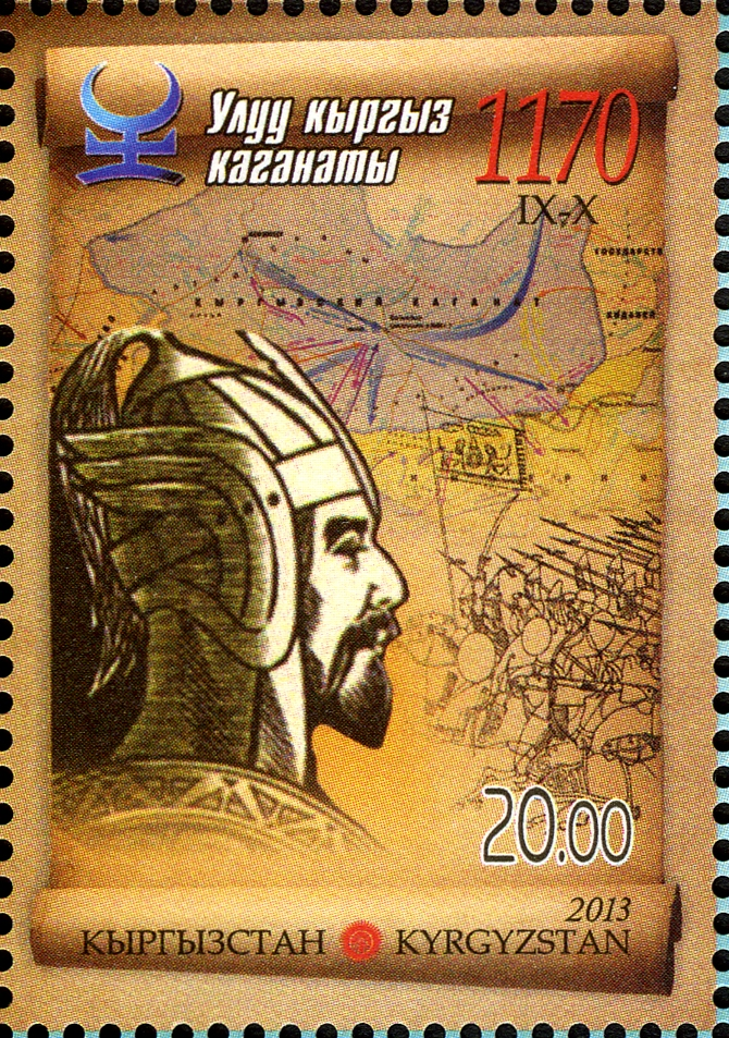 Stamps of Kyrgyzstan, 2013